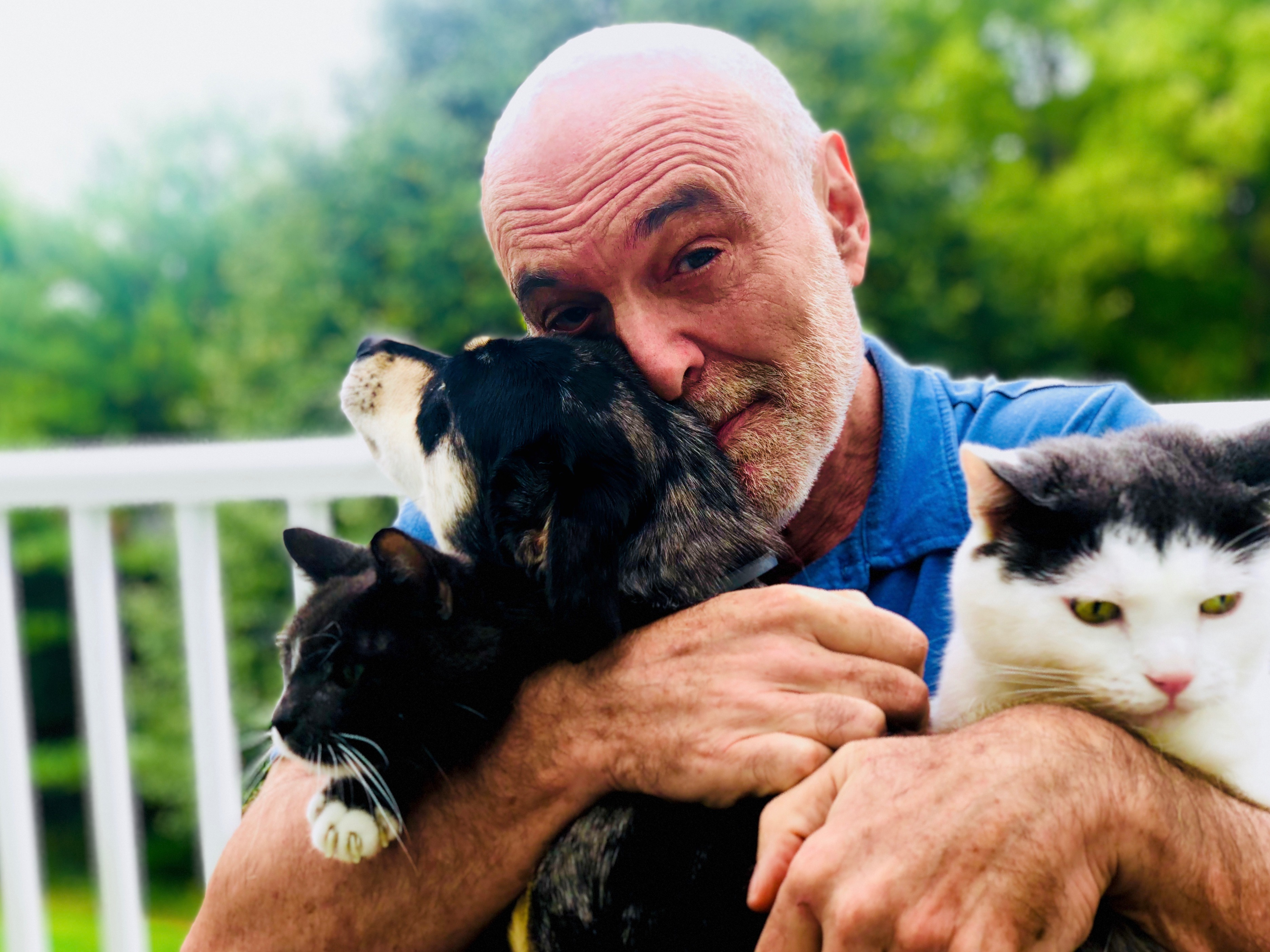 Gene with various animals